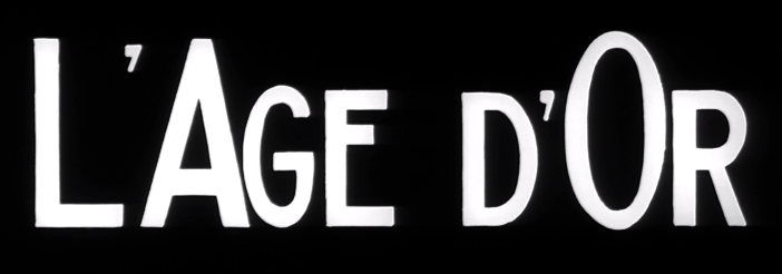 Logo of the film L'Age d'Or.